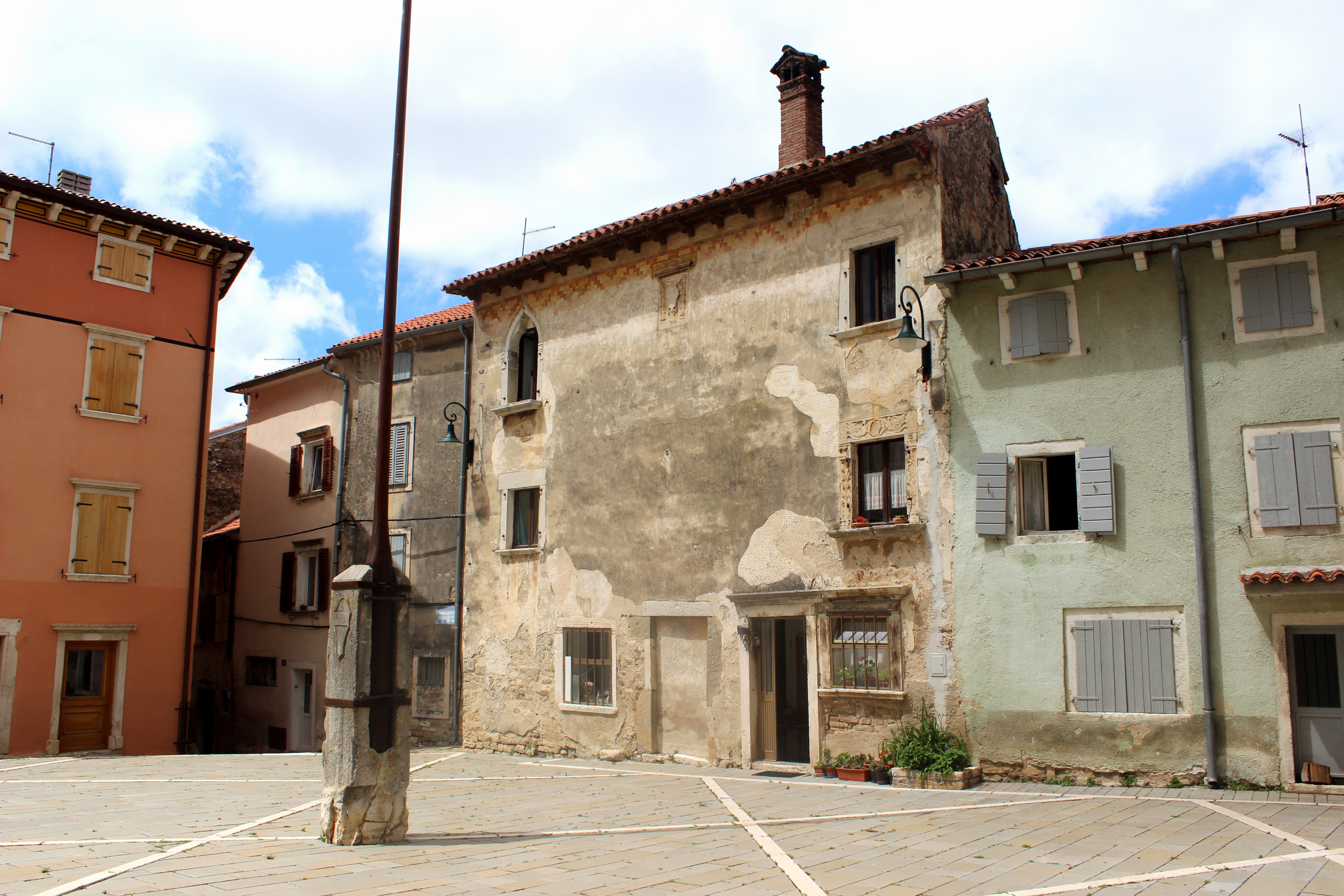 Gothic-venetian Palace, in Buje, Croatia